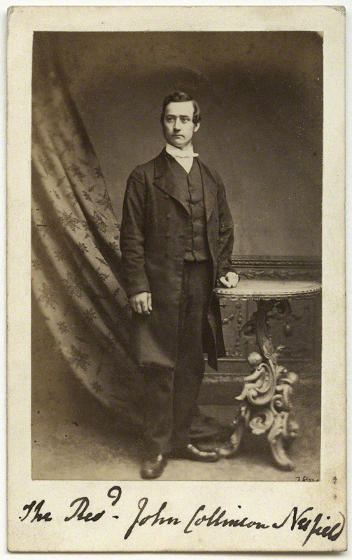 by William Hardy Kent, albumen carte-de-visite, 1860s